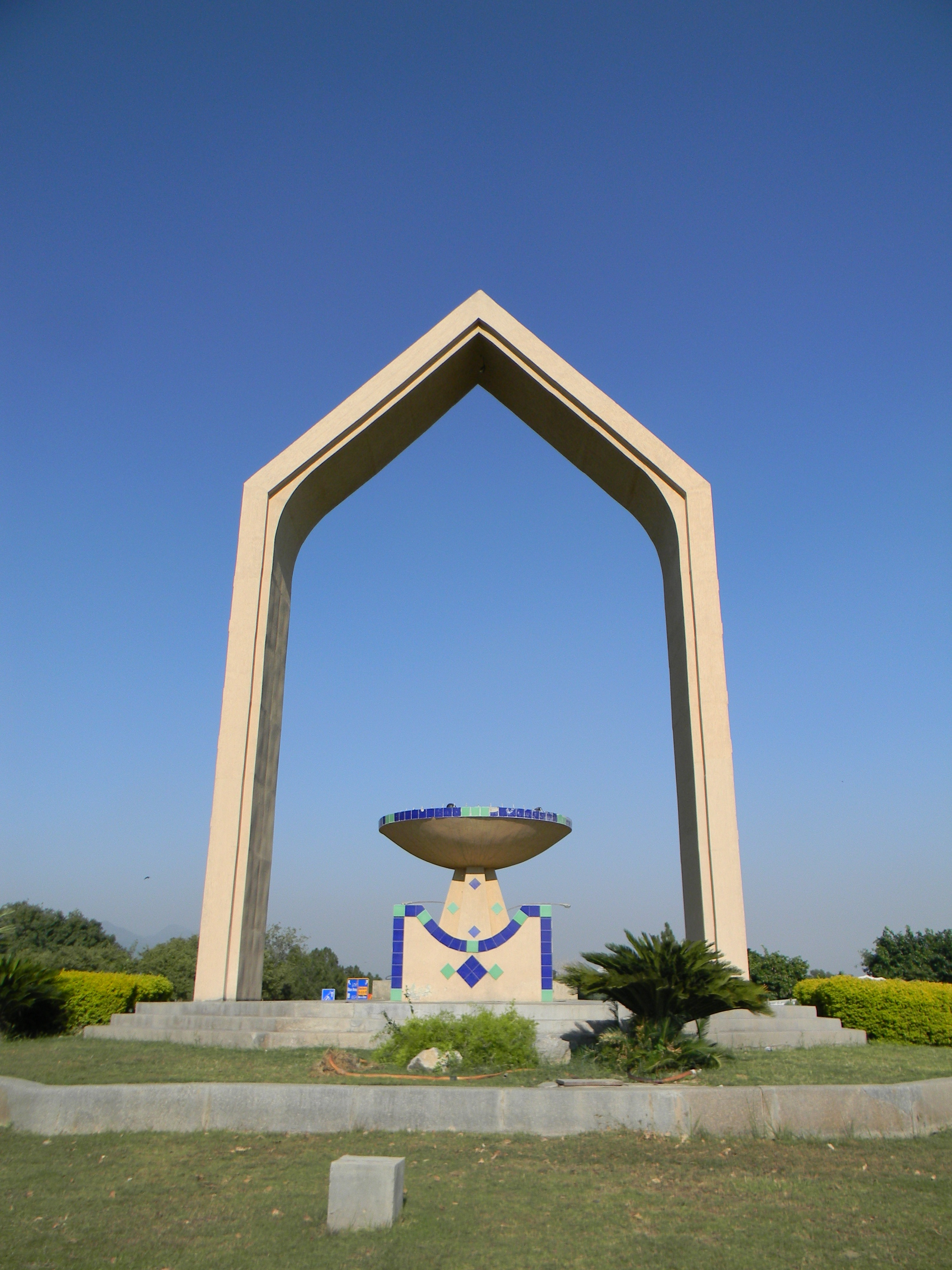 It is an arch near F/9 Park Islamabad.